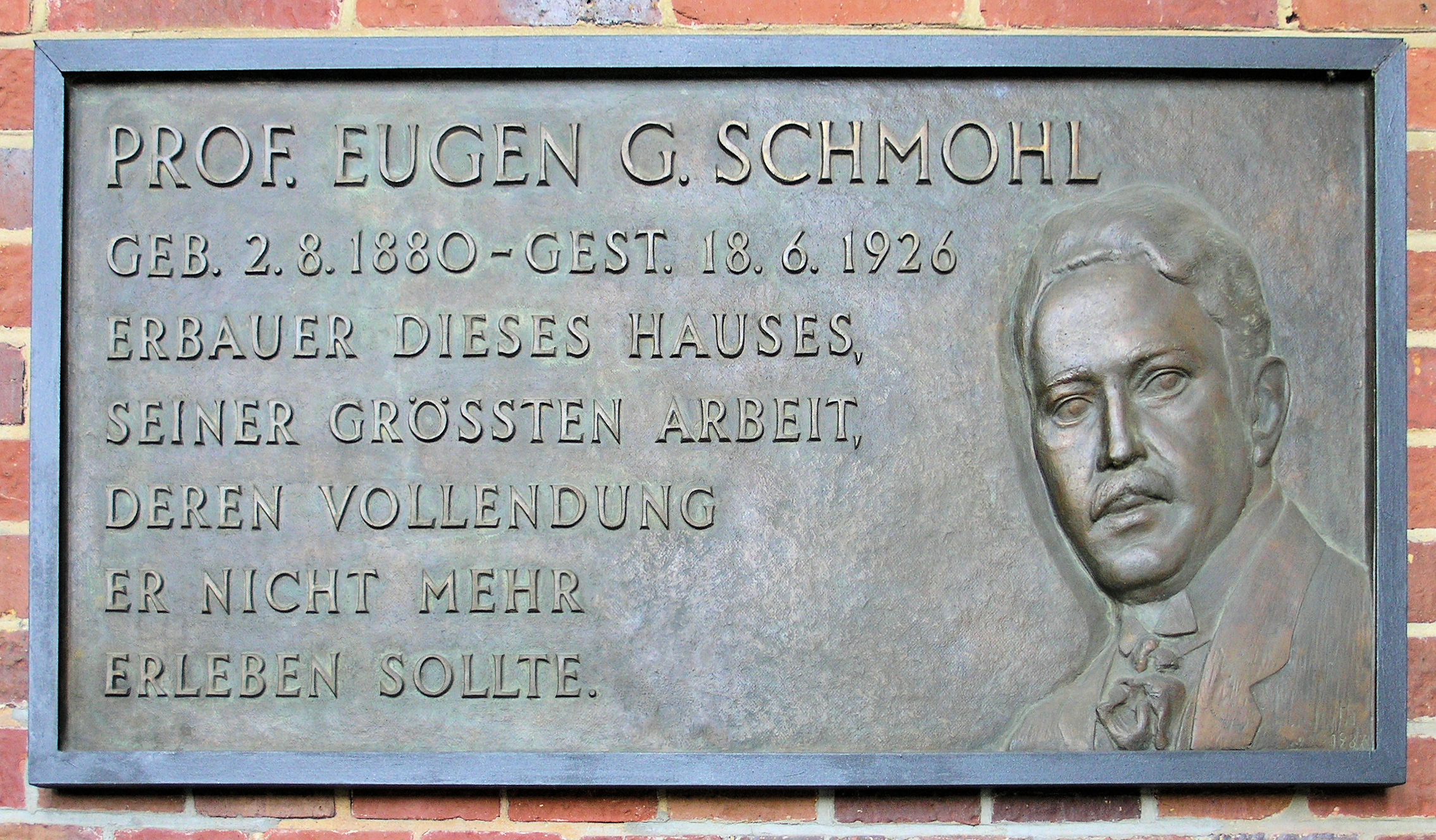 Memorial plaque, Eugen G. Schmohl, Mariendorfer Damm 3, Berlin-Tempelhof, Germany Koordinate:52°27′13″N 13°23′6″E / 52.45361°N 13.385°E